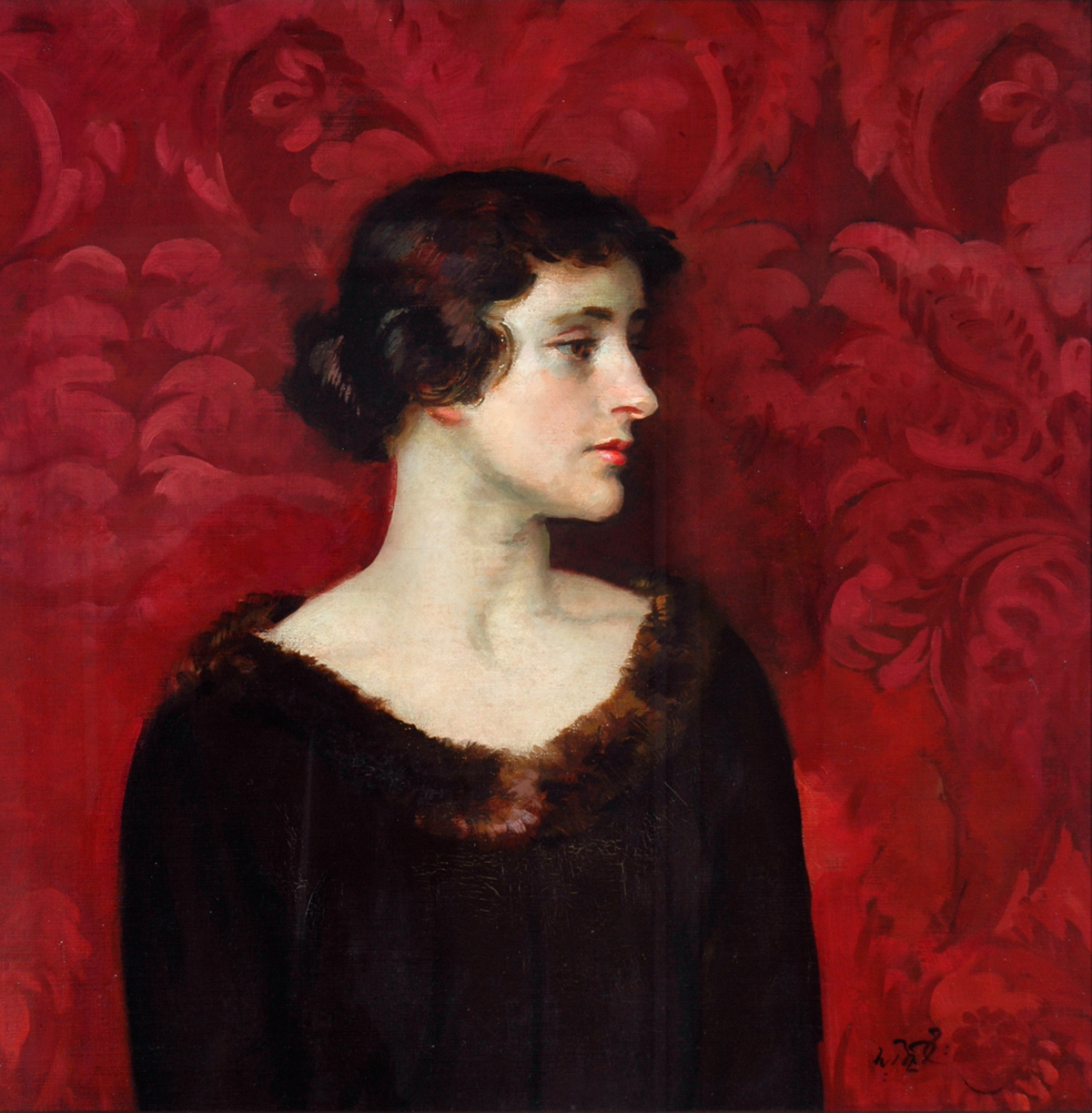 Ranken, William Bruce Ellis; Lady in Brown; Calderdale Metropolitan Borough Council